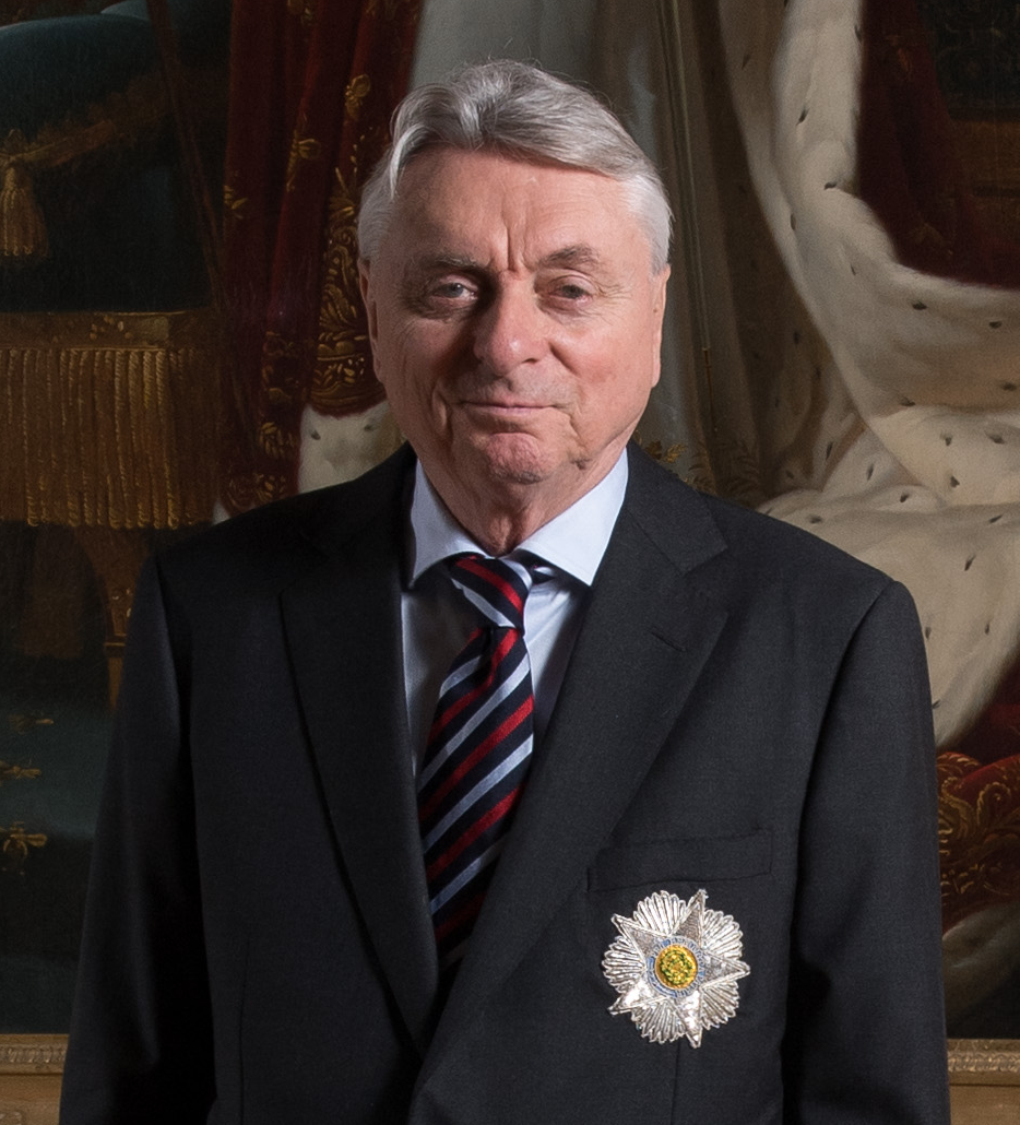 Joachim 8th Prince Murat June 2017